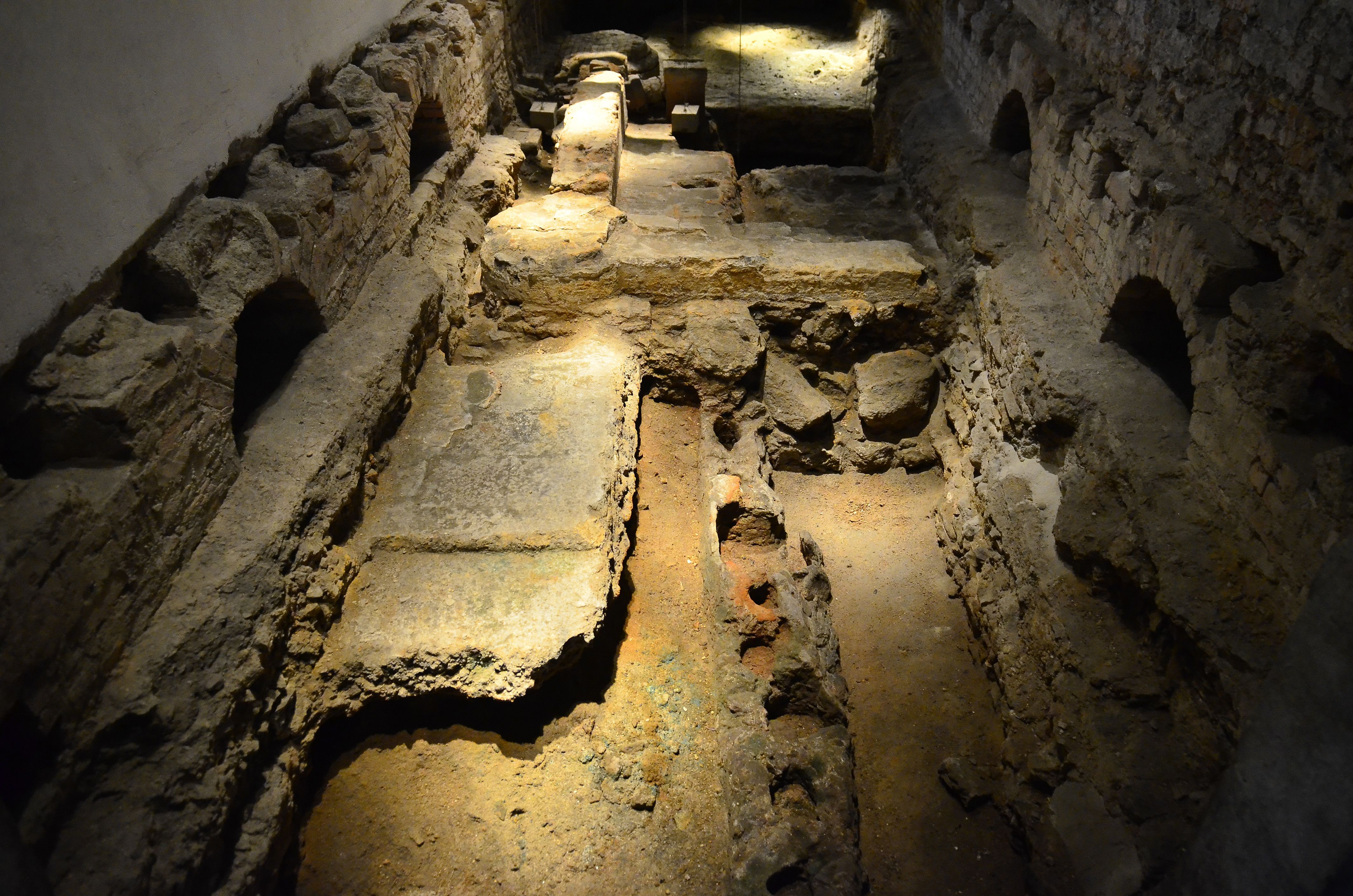 Photo by Tânia Rêgo/Agência Brasil CCBY3.0